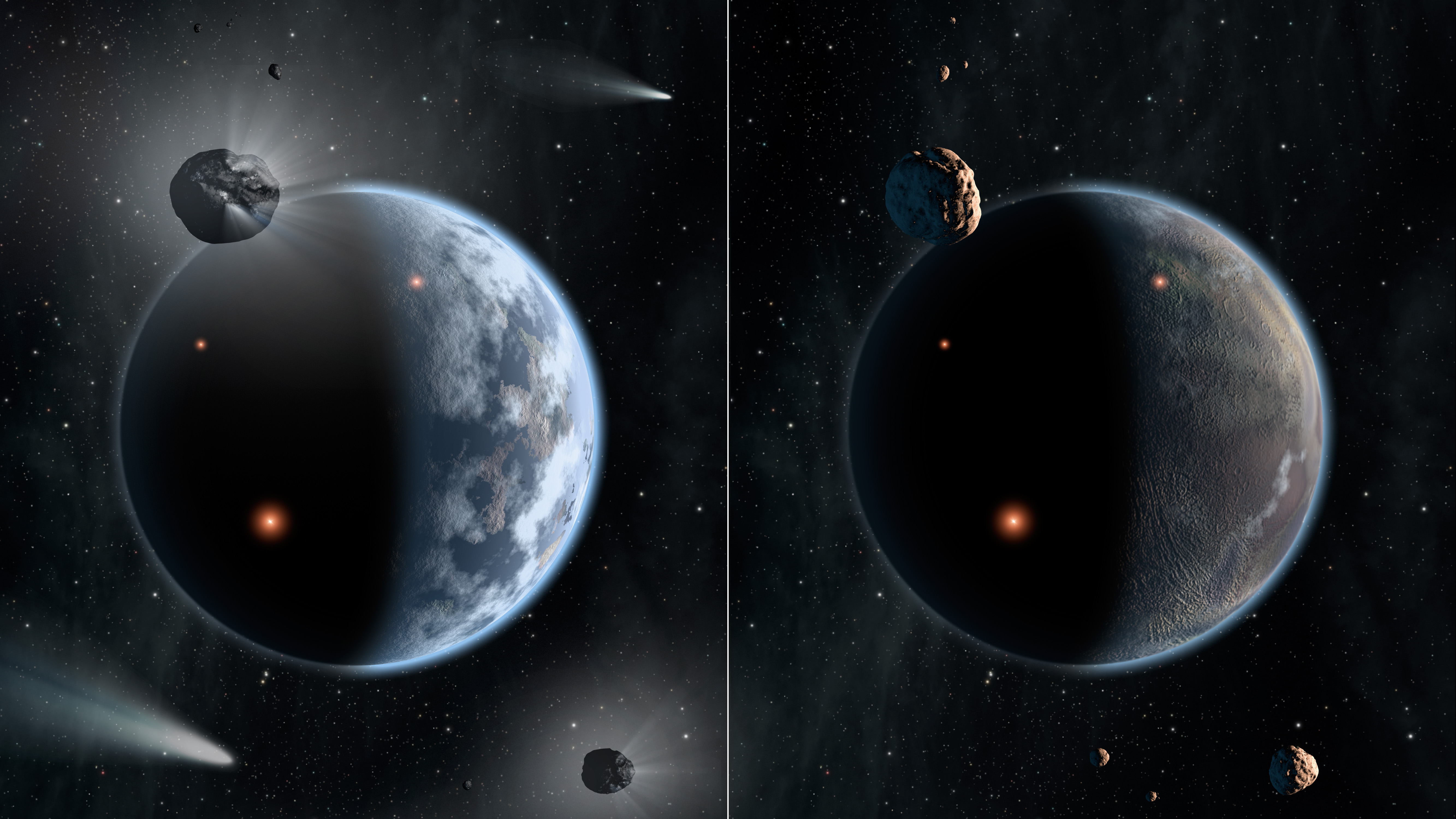 This artist's concept illustrates the fate of two different planets: the one on the left is similar to Earth, made up largely of silicate-based rocks with oceans coating its surface. The one on the right is rich in carbon -- and dry. Chances are low that life as we know it, which requires liquid water, would thrive under such barren conditions. New theoretical findings show that planetary systems with carbon-rich stars would host waterless rocky planets. On Earth, it is believed that icy asteroids and comets are the main suppliers of Earth’s ocean. But, in star systems rich in carbon, the carbon would snag up oxygen to make carbon monoxide, leaving little oxygen to make water ice. In those systems, the asteroids and comets would be dry. The most extreme carbon-rich stars, with much more carbon than our sun, are thought to create carbon-based planets, as depicted in this illustration. Those planets would lack oceans due to a lack of icy asteroids and comets serving as water reservoirs.